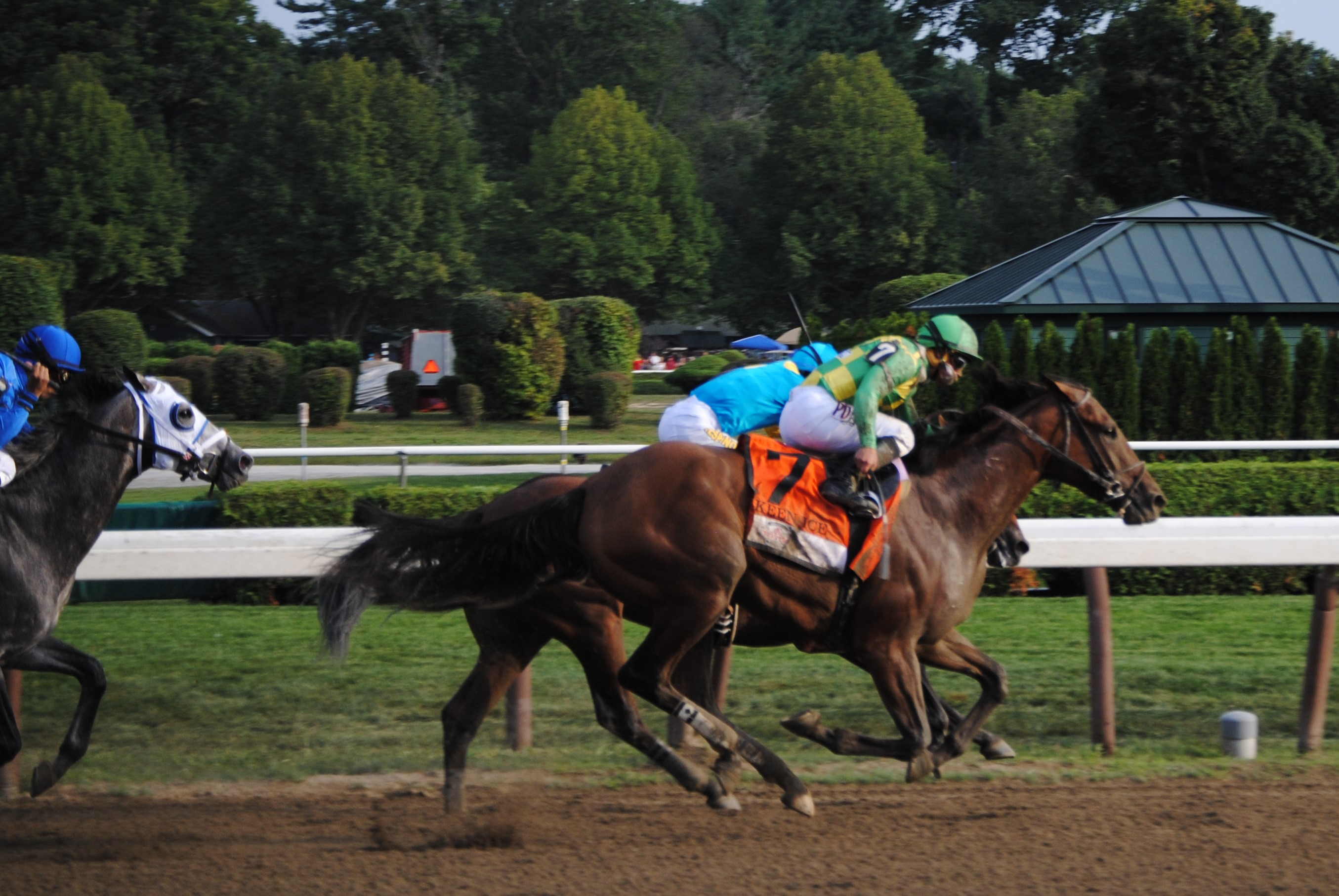 Keen Ice, ridden by Javier Castallano, passes American Pharoah in the 2015 Travers Stakes, Frosted is visible in third